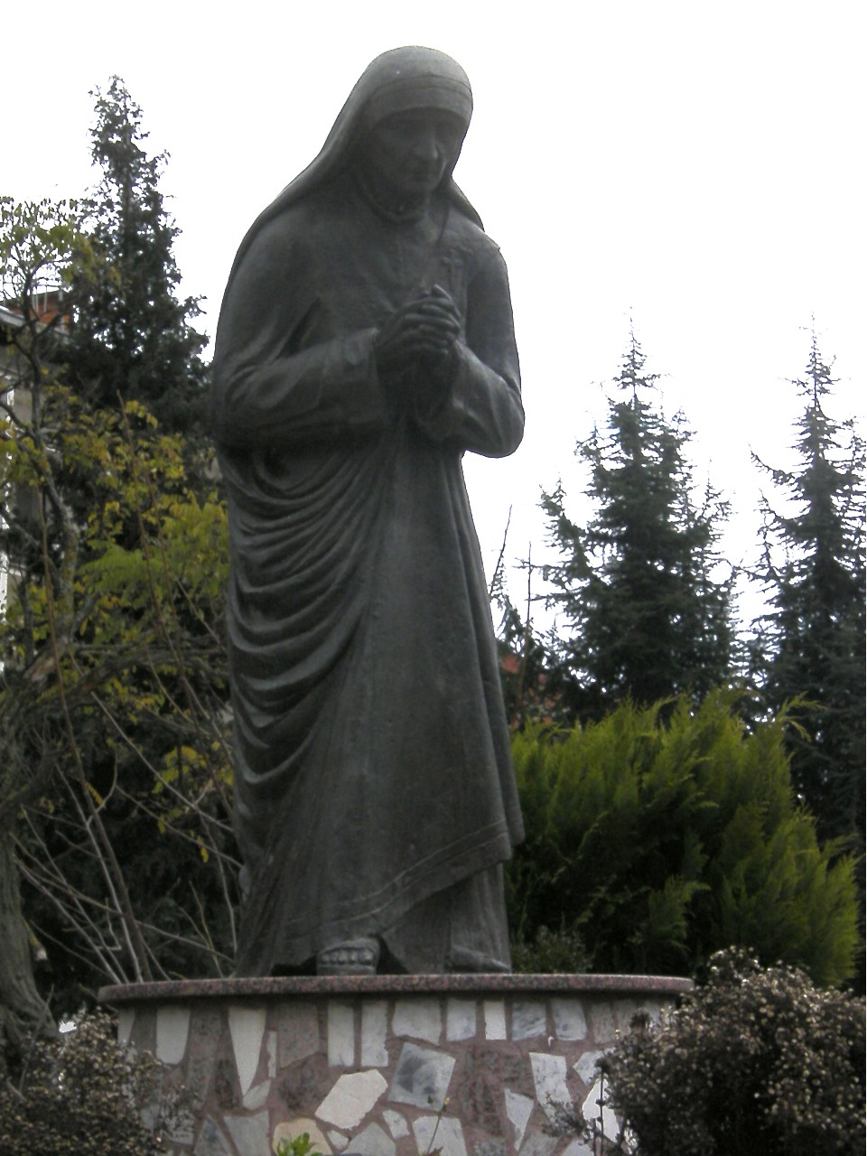 Mother Theresa statue, Struga